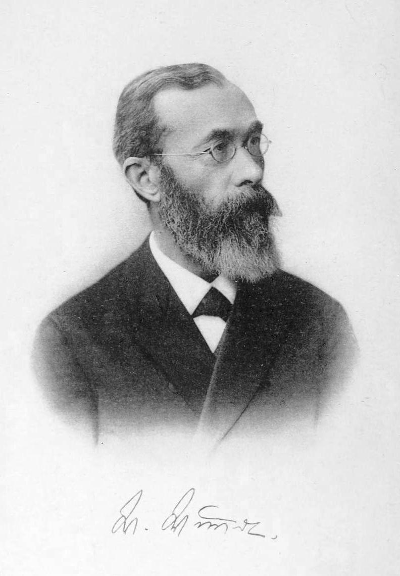 Wilhelm Wundt